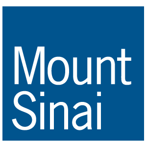 The logo for The Mount Sinai Hospital prior to 2013.